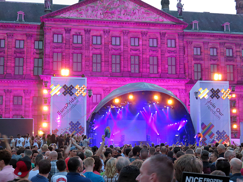 Open air party at Dam Square in Amsterdam in the evening of the LGBT Pink Saturday event, July 23, 2016.